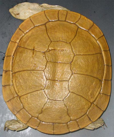 Dorsal view of the holotype of Chelodina steindachneri (NMW19798) from the Naturhistorische Museum in Vienna.